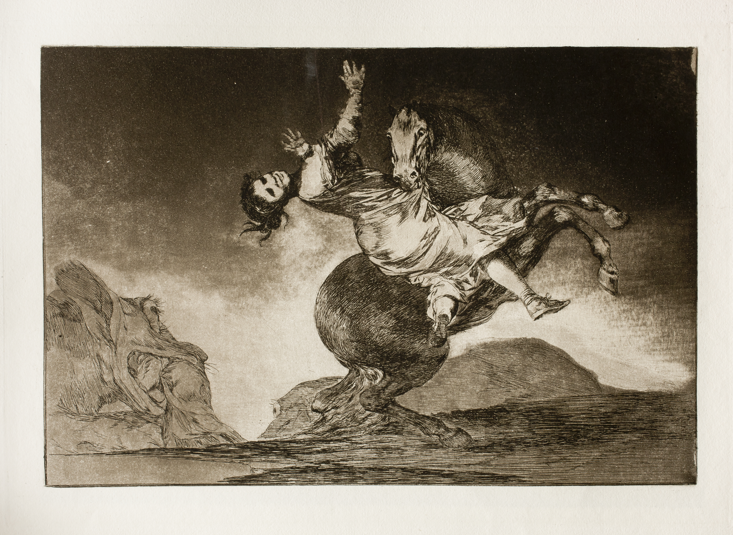 This print is work No. 10 of the "Disparates" series (1st edition, Madrid, Real Academia de Bellas Artes de San Fernando, 1864).